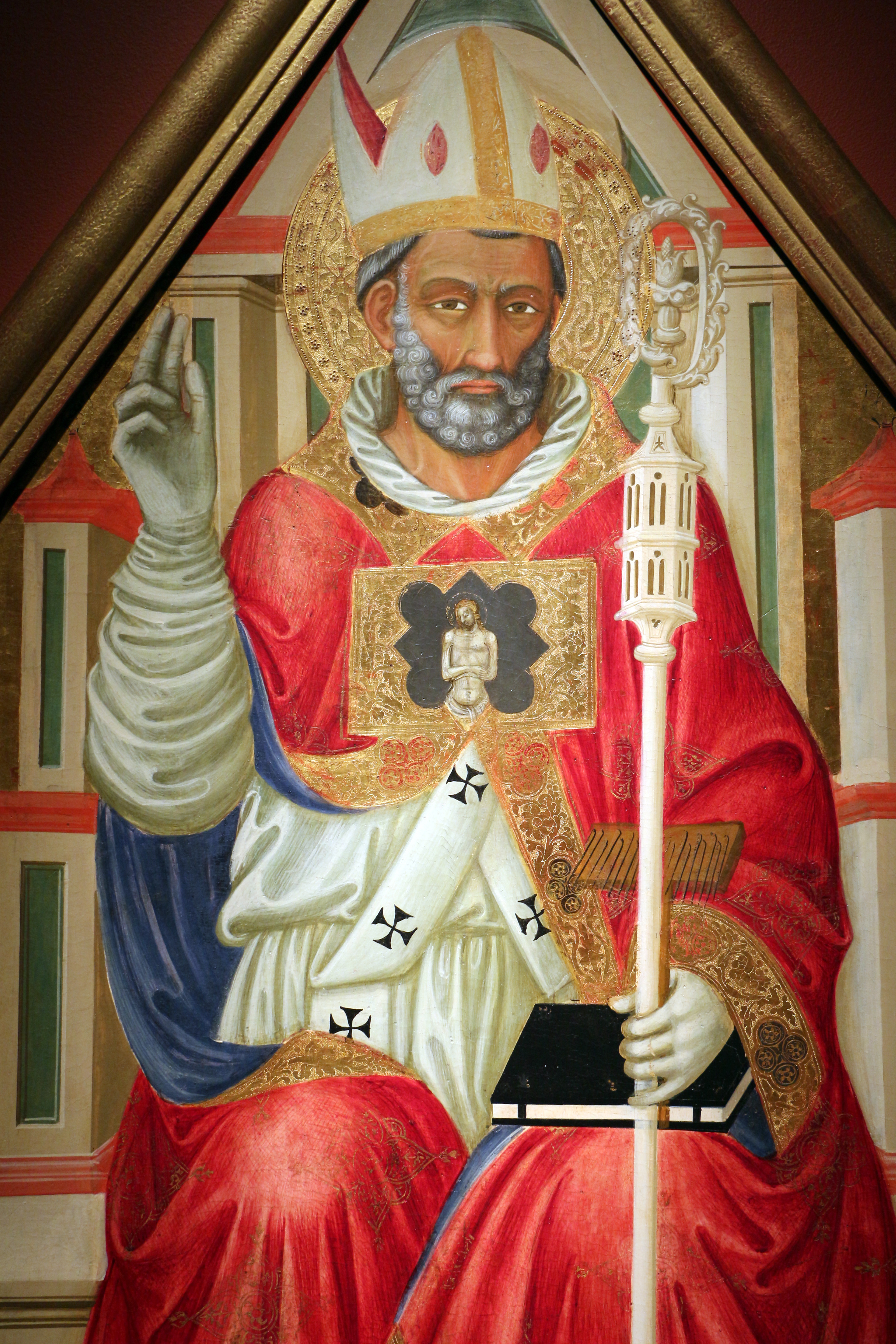 European paintings in the Indianapolis Museum of Art